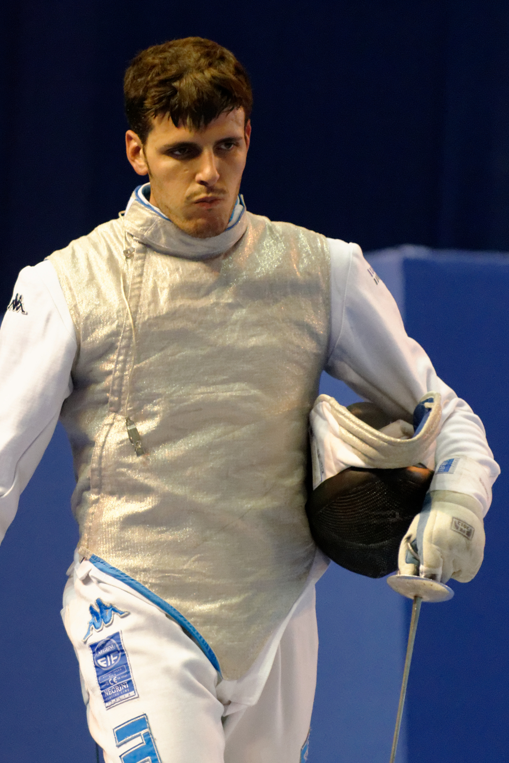 Andrea Cassarà during his T16 bout at the Challenge international de Paris 2013 against Miles Chamley-Watson.